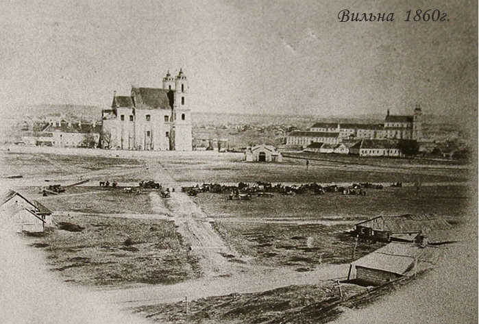 Reconstruction of the Lukiskes suburb, Vilnius, 1860